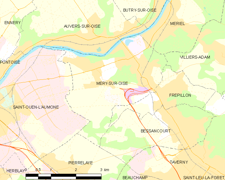 Map of French municipality Méry-sur-Oise